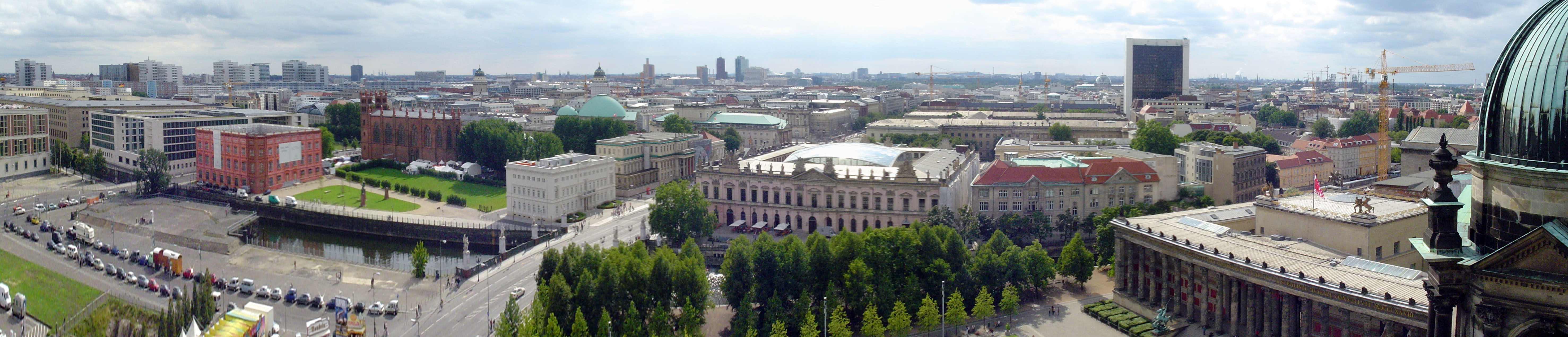 View over Berlin center (Mitte) from the Berliner Dom.